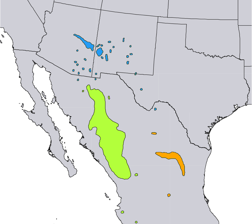 Combined range map of Pinus reflexa, Pinus strobiformis, and Pinus stylesii (Pinus strobiformis sensu E.L.Little 1966)